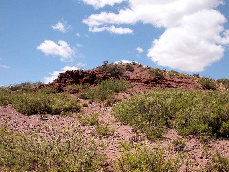 Lohan Cura fm. (Lower Cretaceous) near Santo Tomas, Neuquen, Argentina.